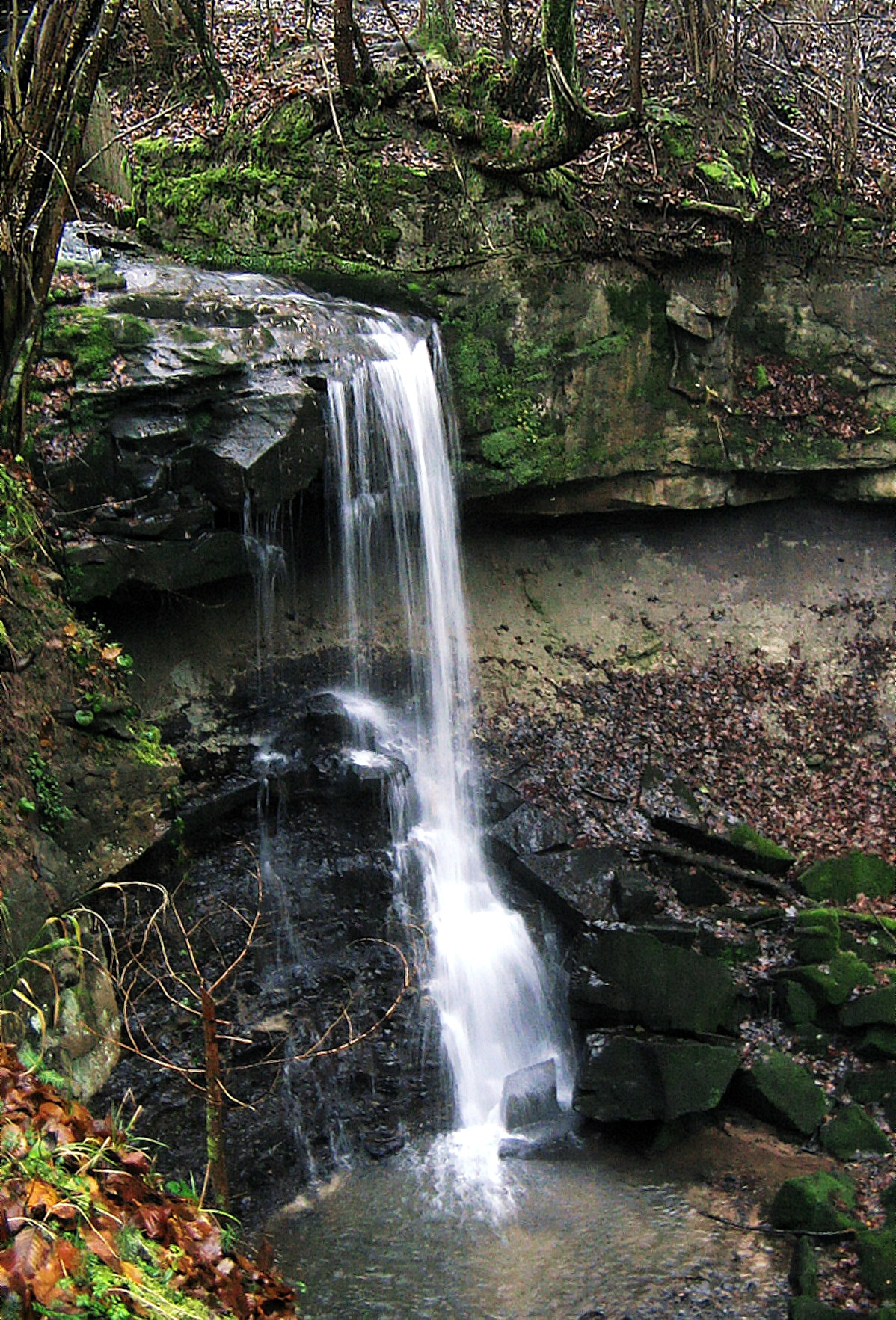 Edenbach fall at the beginning of Wieslauf-Gorge near Welzheim Baden-Württemberg, Germany